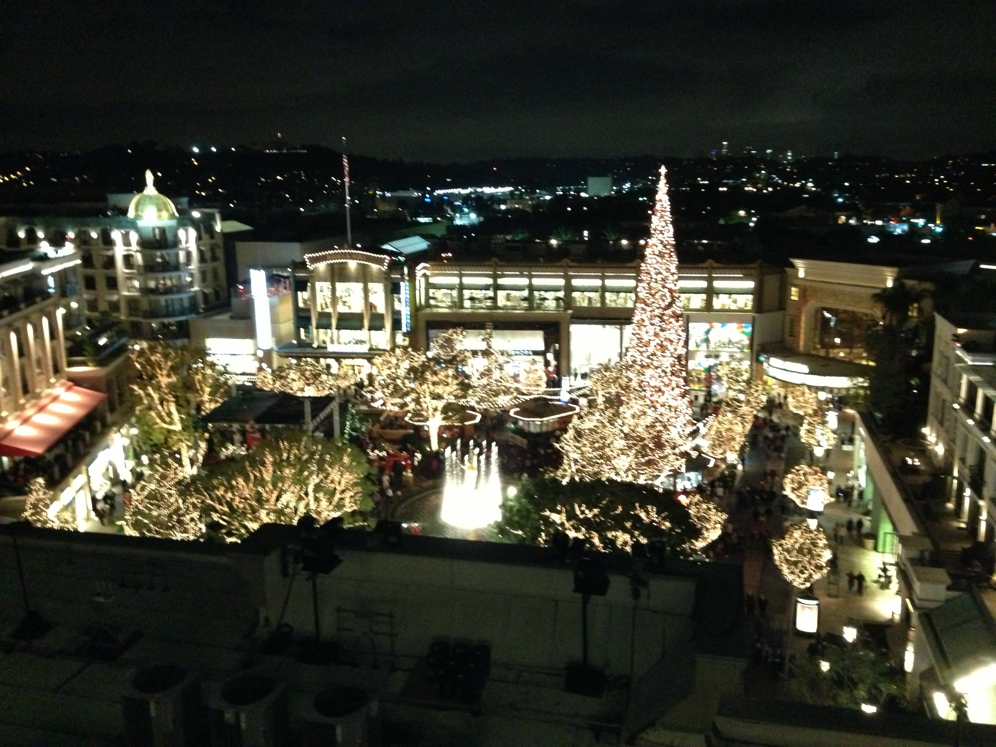 The Americana at Brand in Glendale, California with holiday lights and lit Christmas tree as seen from the property's top floor on the evening of Thursday, November 21, 2013. Downtown Los Angeles is visible in the background.